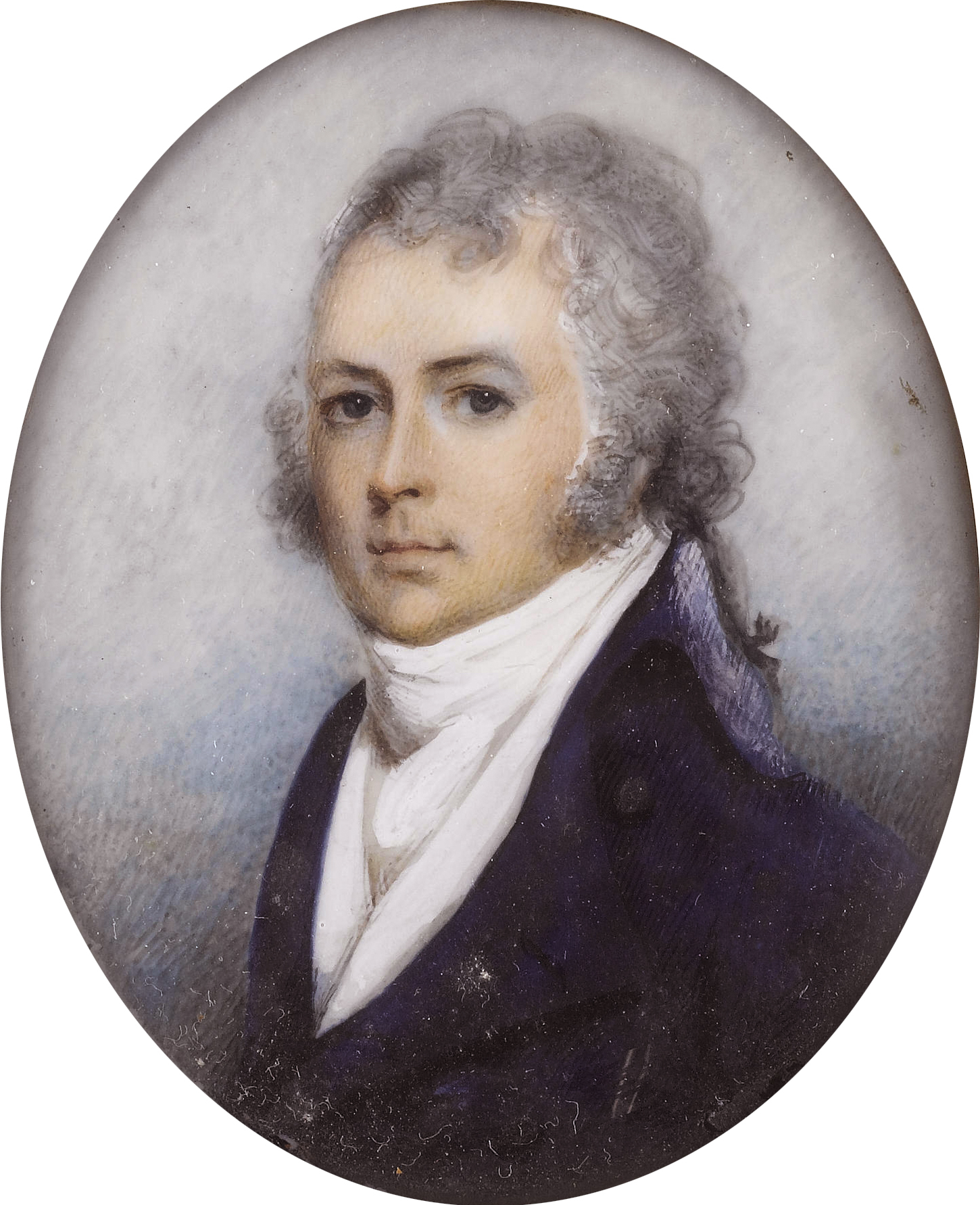 James Wandesford Butler, 1st Marquess of Ormonde (1777-1838) oval, 65mm high